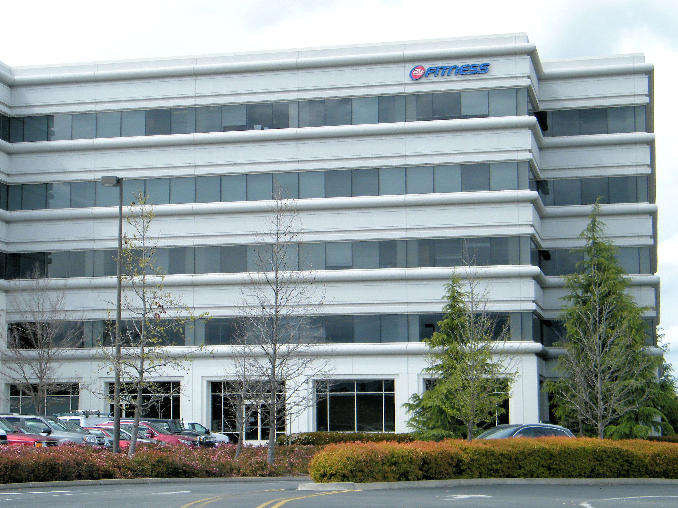 24 Hour Fitness headquarters in San Ramon.